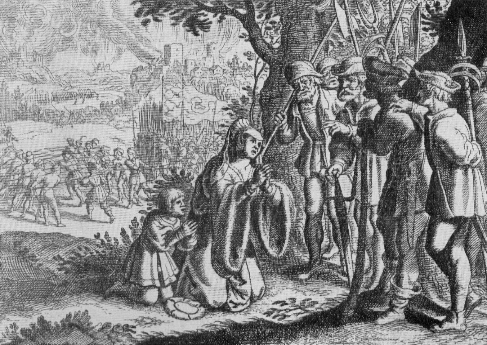 Countess Helfenstein begs Jäcklein Rohrbach for the life of her husband. Engraving by Matthäus Merian the elder.